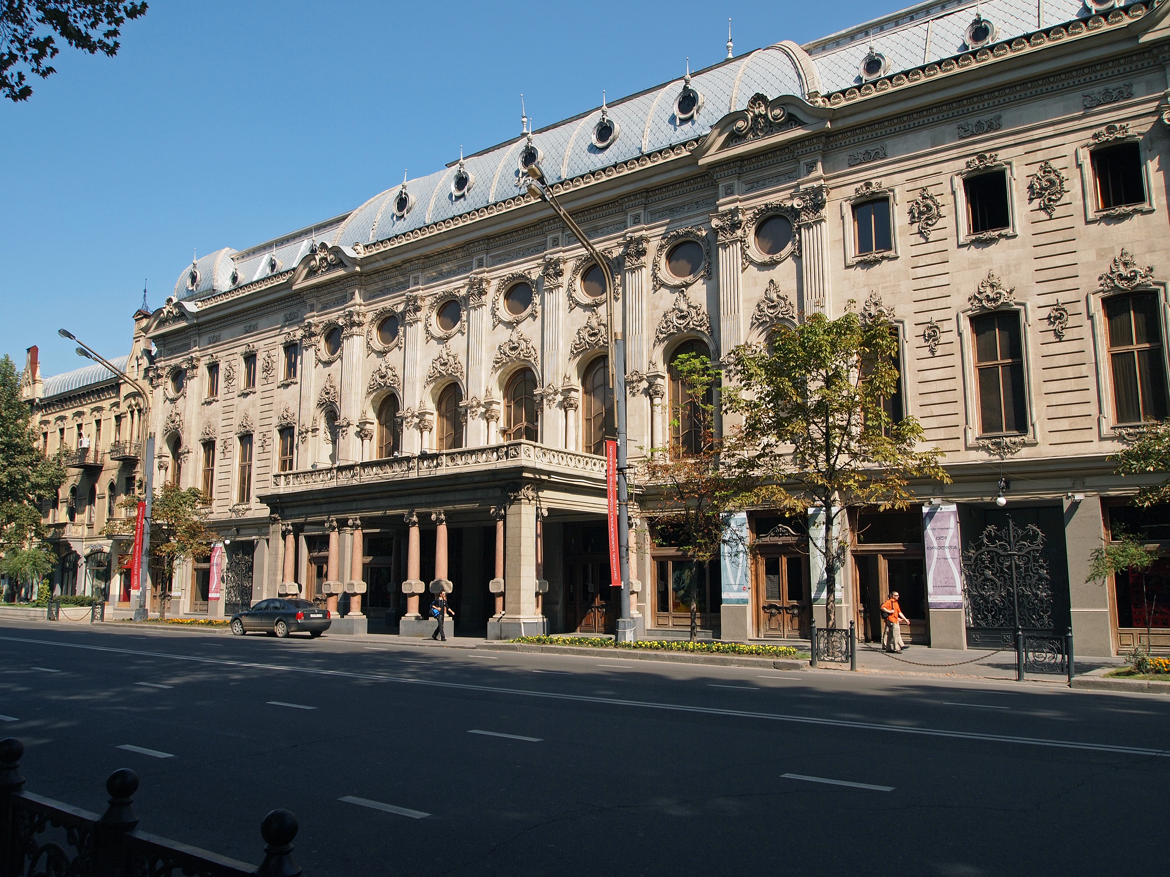 Rustaveli theater in Georgia (Europe)